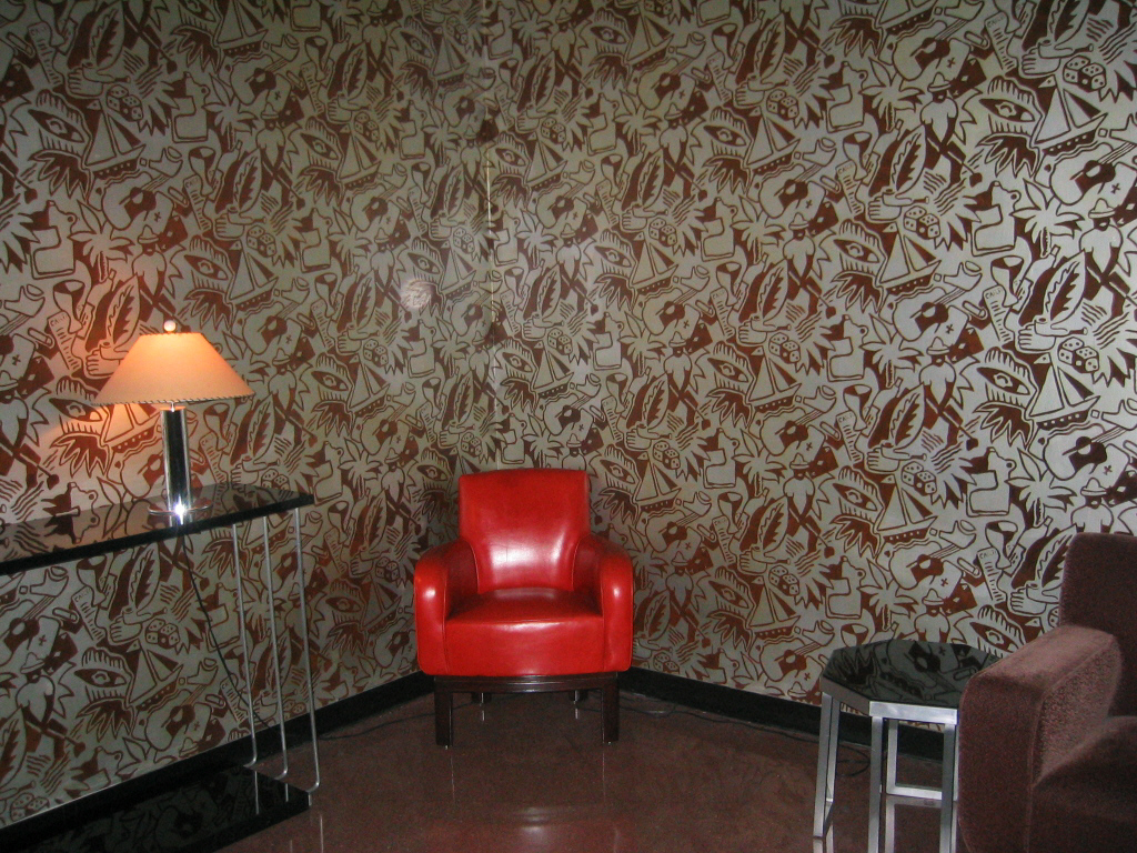 Gentlemen's Lounge, Radio City Music Hall, Manhattan, New York City